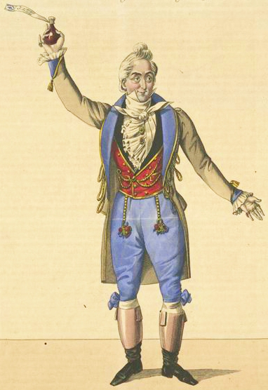 Giuseppe Frezzolini (1789-1861) as Dr Dulcamara in Donizetti's L'elisir d'amore, which premiered at the Teatro della Canobbiana, Milan, on 12 May 1832.